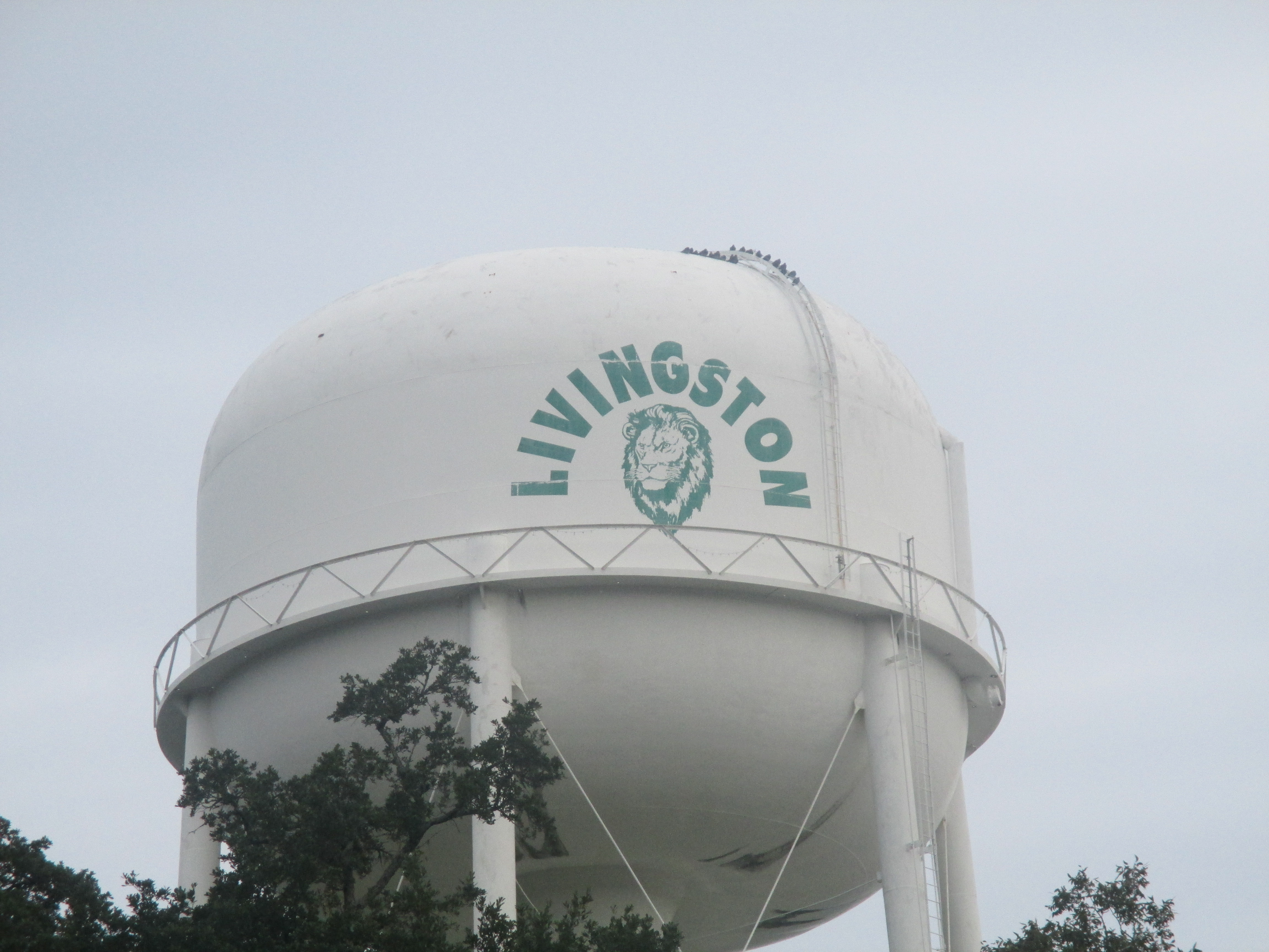 I took photo of Livingston, TX, water tower with Canon camera.